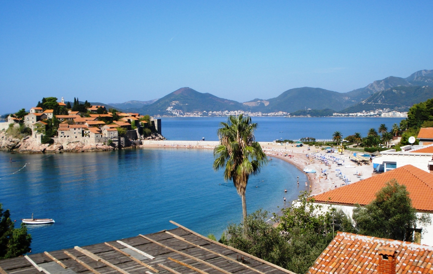 View of Sveti Stefan with Budva and Becici in the distance.